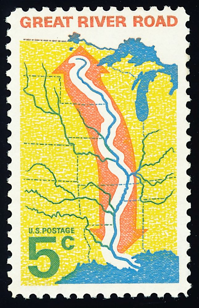 This file contains an image of the US five cent postage stamp issued in 1966 commemorating the Great River Road. It will be used for the article